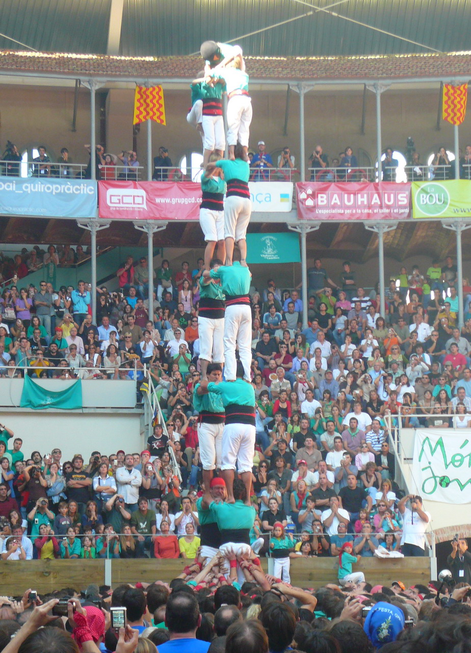 Dos de vuit